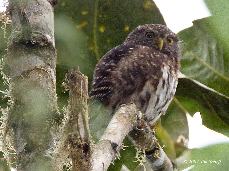 Andean Pygmy-owl (Glaucidium jardinii) in a tree. Upper Tandayapa Valley, NW Ecuador